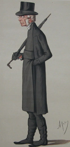 Caricature of The Right Rev. John William Colenso, D.D., Bishop of Natal. Caption read "the Pentateuch".